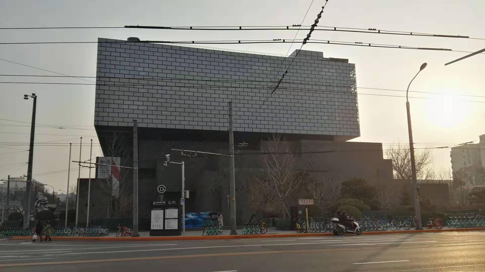 the building of Guardian Art Center in Beijing